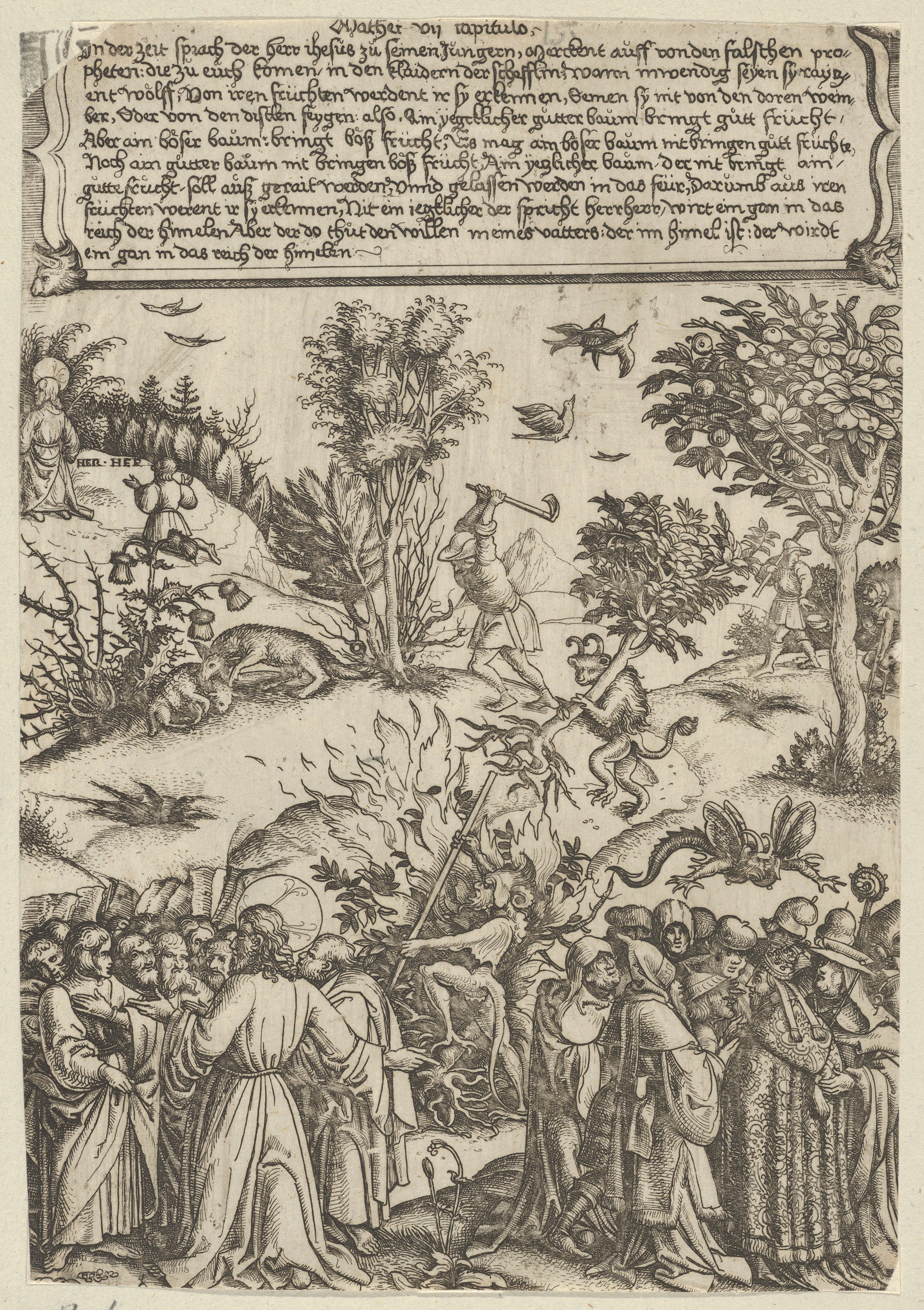 Print; Prints